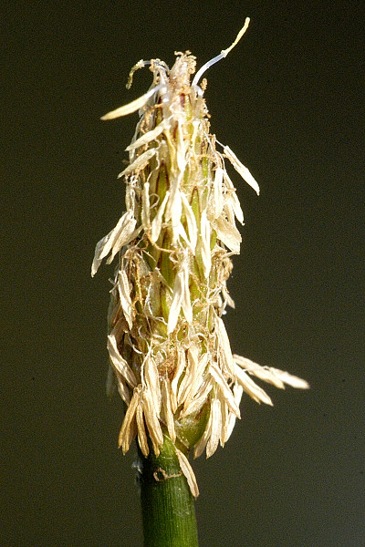 Eleocharis palustris from Commanster, Belgian High Ardennes .